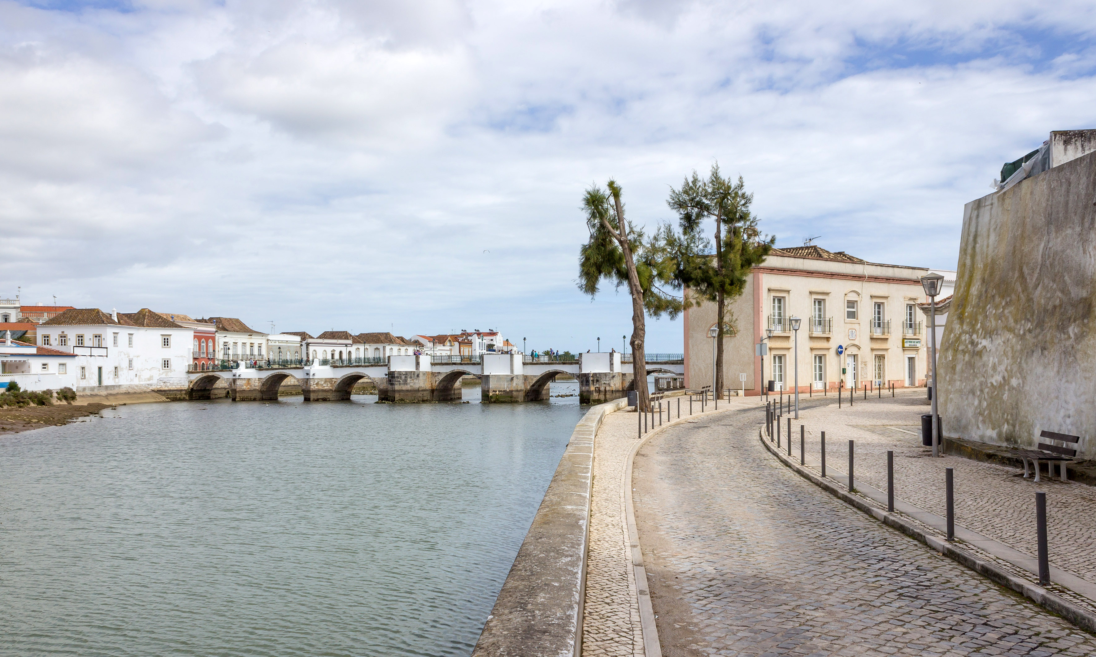 Tavira river bank, view on the Roman bridge and River Gilão